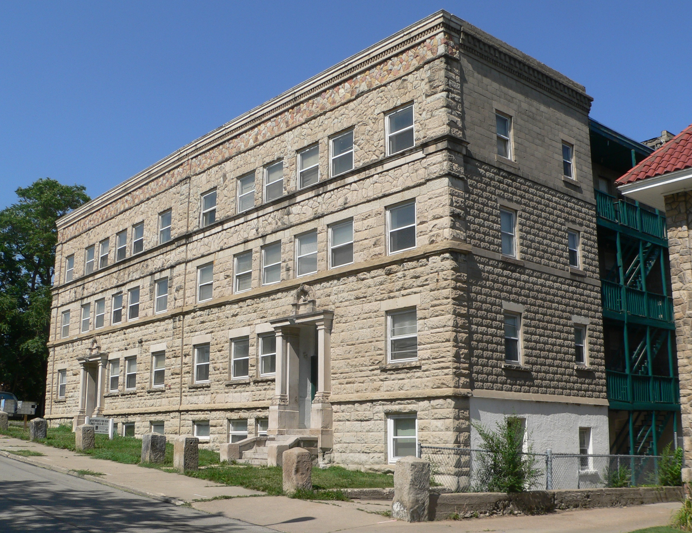 Florentine Apartments, located at 907-911 S. 25th Street (southeast corner of 25th and Marcy) in Omaha, Nebraska; seen from the southwest. The west side, at left, faces 25th.